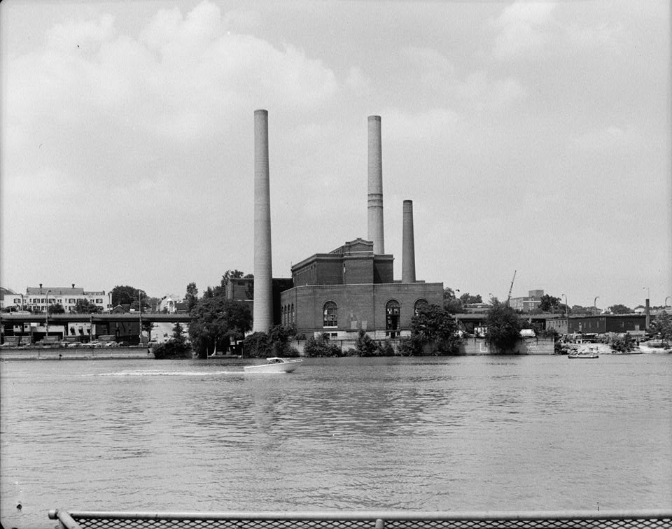 Capital Traction Company Powerhouse, 3142 K Street Northwest, Washington, District of Columbia, DC.